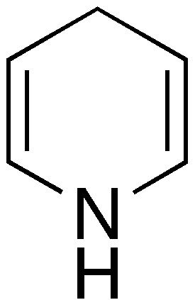 chemical structure of 1,4-dihydropyridine